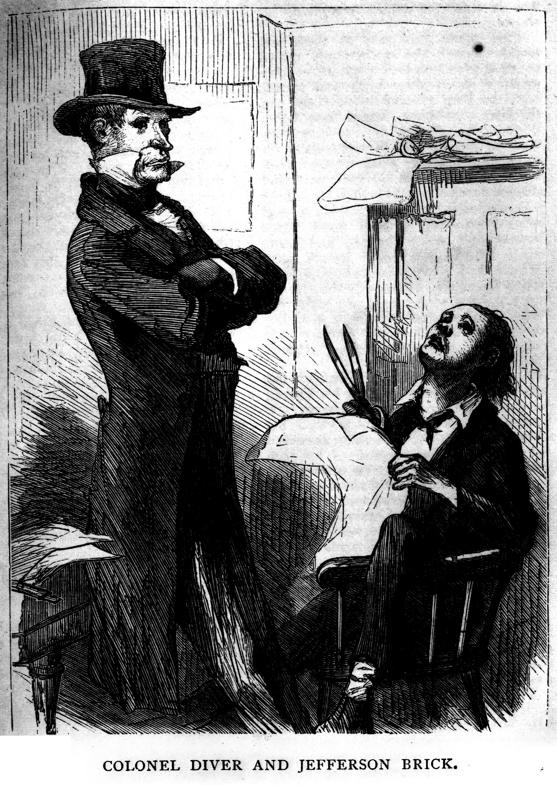 Illustration from 1867 U.S. edition of Martin Chuzzlewit. Page 152. "Colonel Diver and Jefferson Brick"